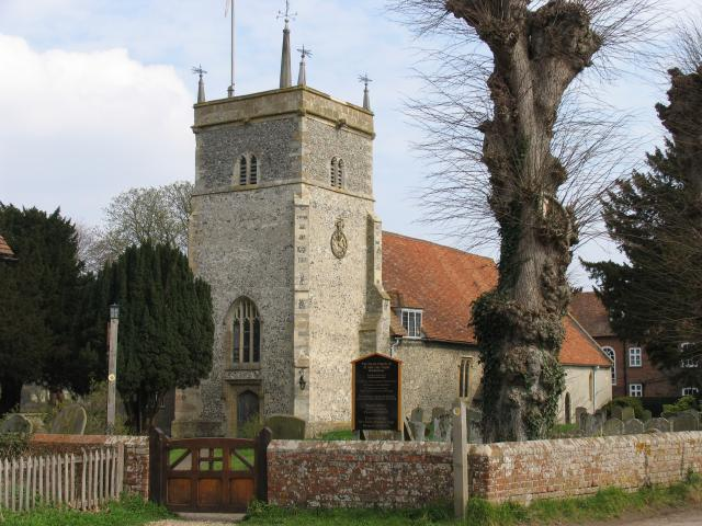 St Mary The Virgin parish church, Bucklebury, Berkshire, seen from the southwest